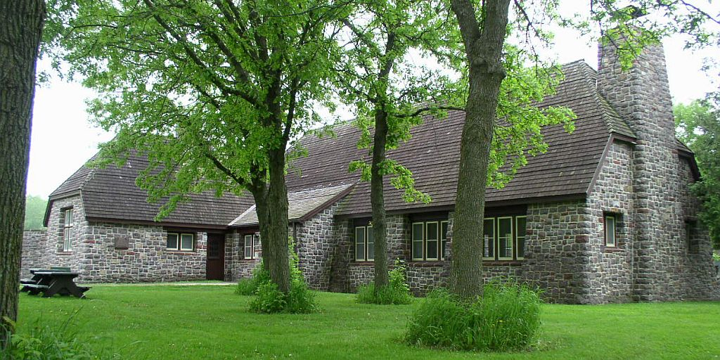 Germanic-style Works Progress Administration beachhouse, Flandrau State Park, New Ulm, Minnesota, USA